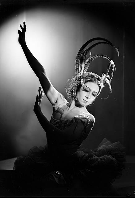 Format: Photograph Notes: Find more detailed information about this photographic collection: .au/item/itemDetailPaged.aspx?itemID=414341 Search for more great images in the State Library's collections: .au/search/SimpleSearch.aspx From the collection of the State Library of New South Wales